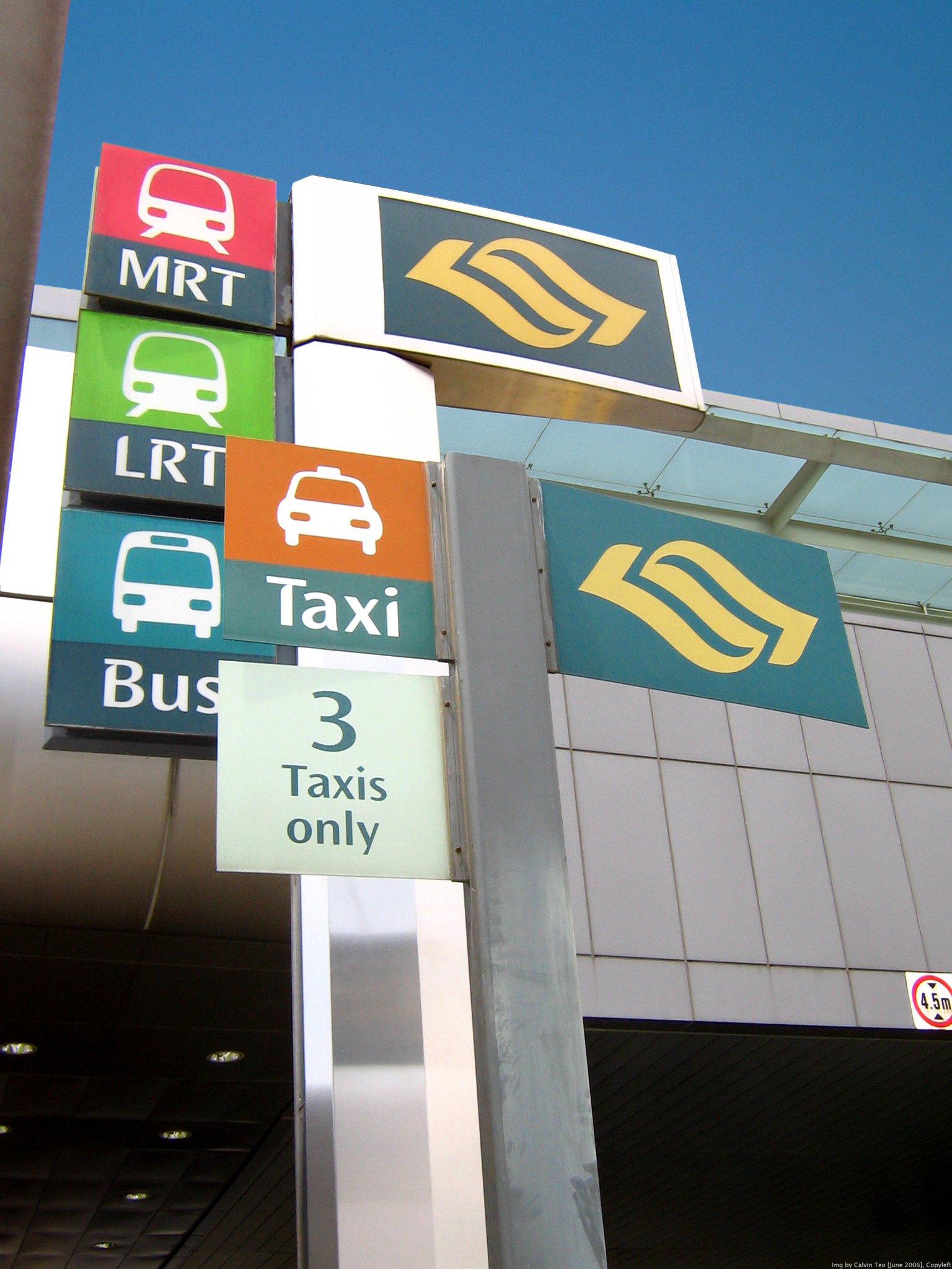 The Bus, MRT, LRT and taxi system make up the public transport system in Singapore. Integration of these systems, both physically and intangibly, provide for a smooth journey for commuters. Img by Calvin Teo, June 2006